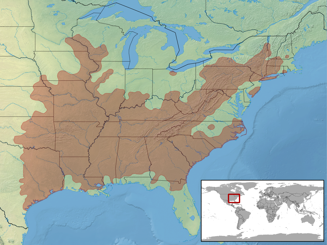 geographic distribution of Crotalus horridus (Native: United States / Regionally extinct: Canada)